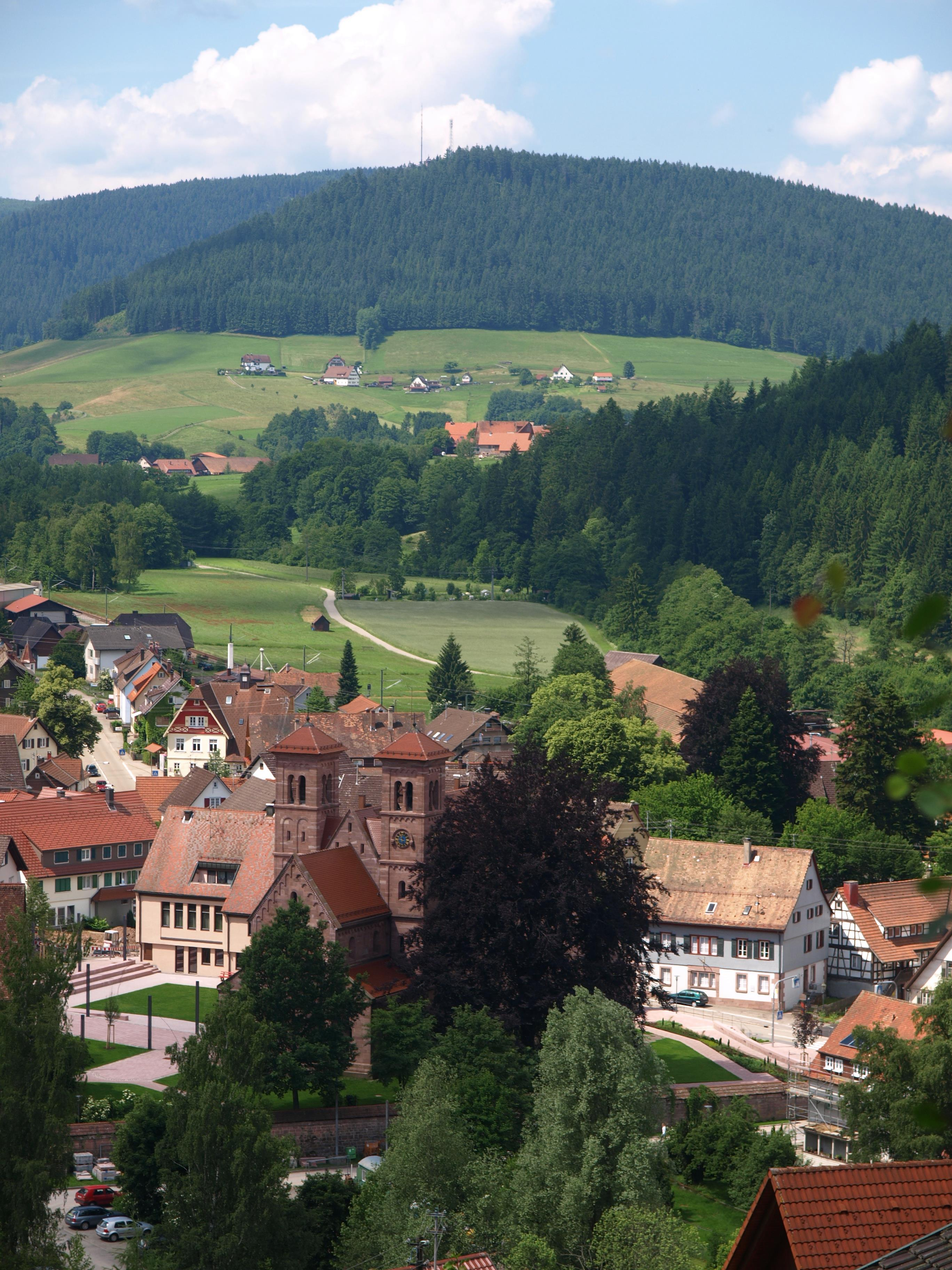 Panoramic view of Klosterreichenbach. In the background, there is mountain Rinkenberg.